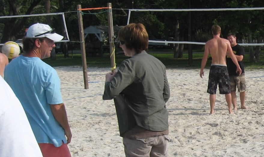 Julie Anne Robinson, Cal Johnson, and Liam Hemsworth This is a retouched picture, which means that it has been digitally altered from its original version. Modifications: cropped. The original can be viewed here: Julie Anne and Cal Johnson.JPG. Modifications made by Liquidluck. Original upload log This image is a derivative work of the following images: Julie Anne and Cal Johnson.JPG licensed with Cc-by-sa-3.0